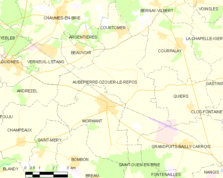 Map of French municipality Aubepierre-Ozouer-le-Repos